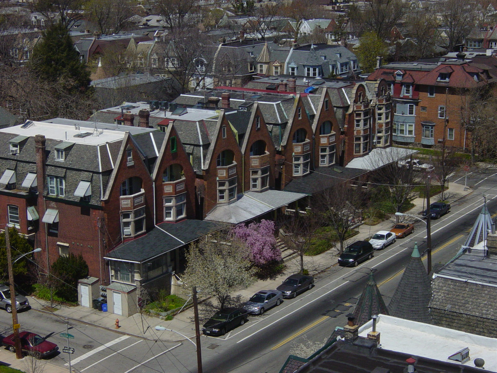 Row Houses at 48th between Walton and Cedar, West Philadelphia